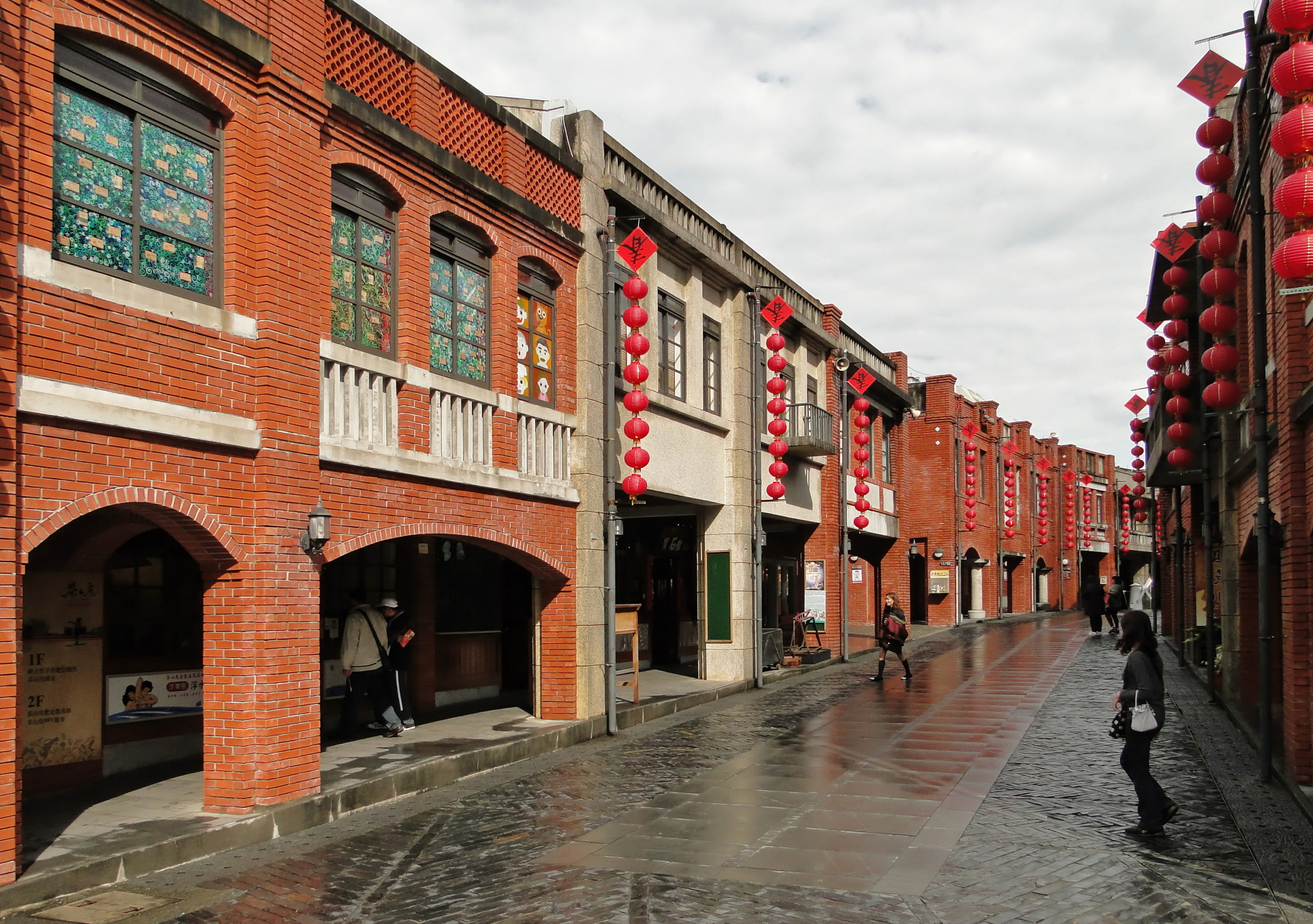 The Folk Art Boulevard in National Center for Traditional Arts, Wujie Township, Yilan County, Taiwan